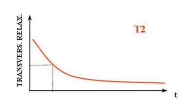 T2 relaxation curve